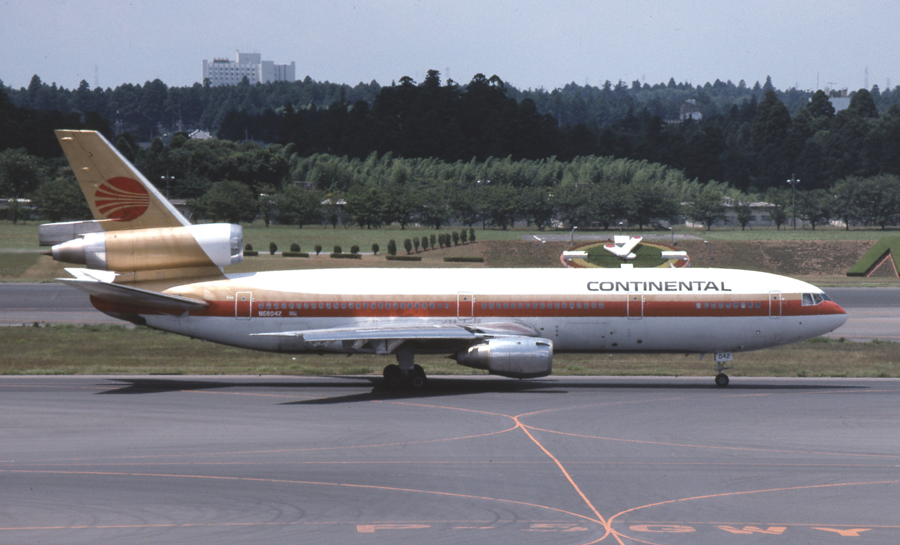 Continental Airlines DC-10-10 (N68042/46901/40)